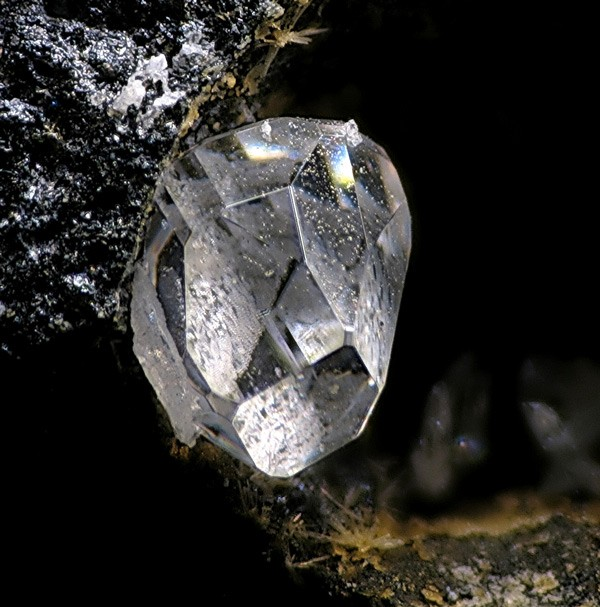 Phosgenite Locality: Vrissaki Point slag locality, Vrissaki area, Lavrion District slag localities, Lavrion (Laurion; Laurium) District, Attikí (Attica; Attika) Prefecture, Greece Picture width 3 mm. Collection and photograph Christian Rewitzer